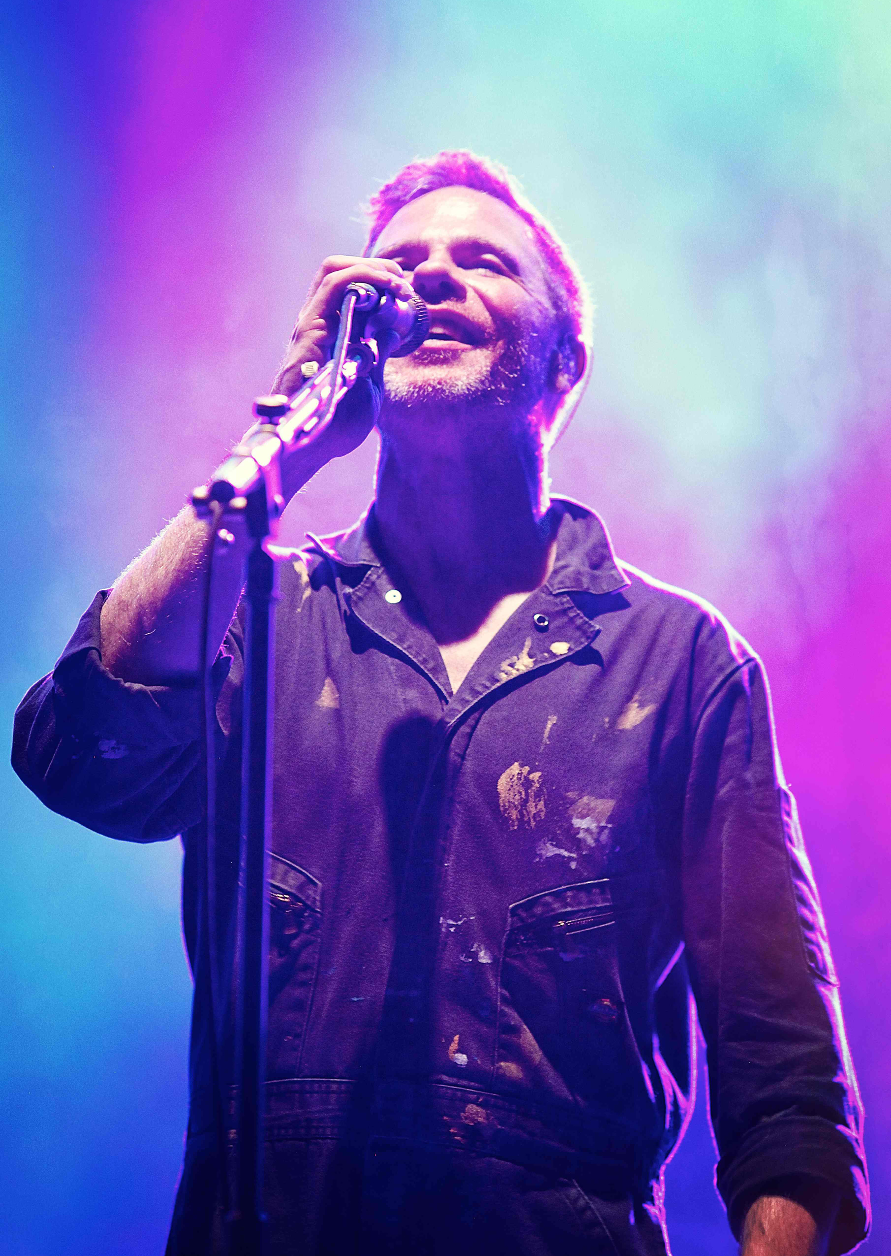 Josh performing at the Beacon Theatre in Feb 2016.